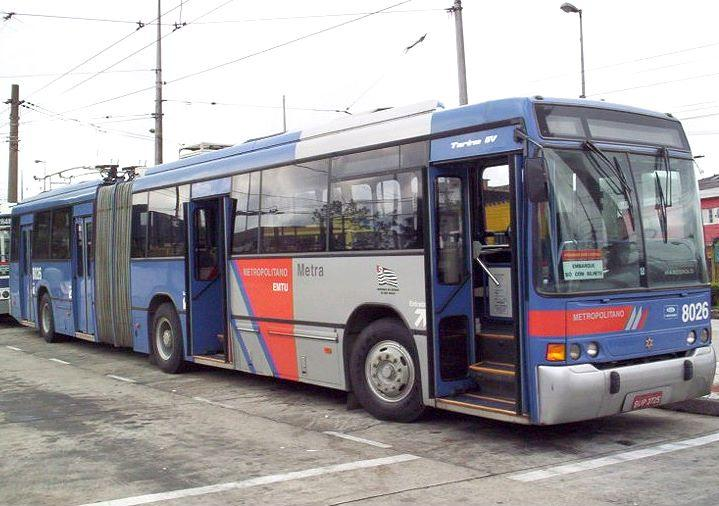 An articulated Marcopolo (body) / Volvo (chassis) trolleybus of EMTU, in suburban São Paulo, Brazil.